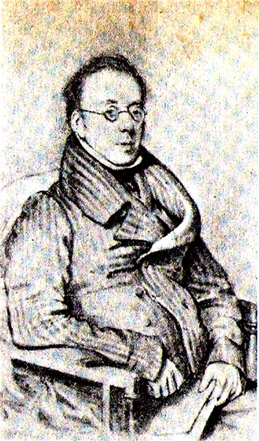 Isaak Disraeli